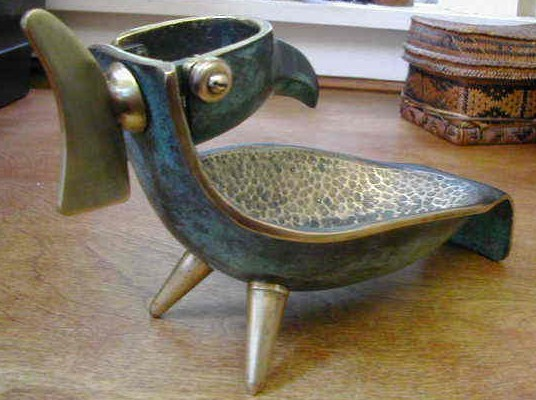 Bronze screw-type decorative nutcracker designed by Maurice Ascalon and manufactured by Pal-Bell Co. Ltd., Tel Aviv, Israel circa-1950s.